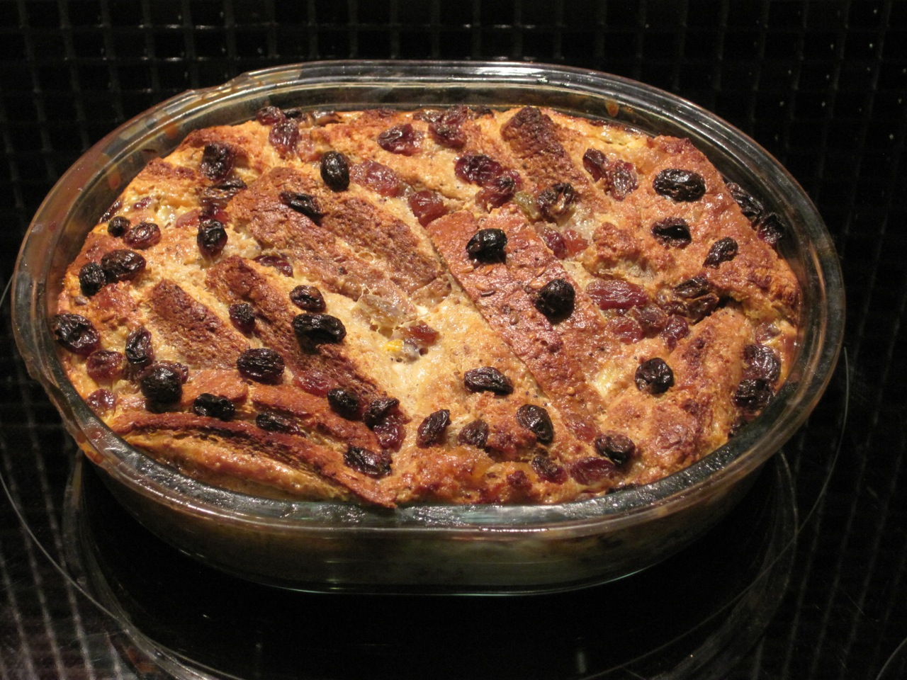 Ginger Brown Bread and Butter Pudding with Rum Sozzled Sultanas